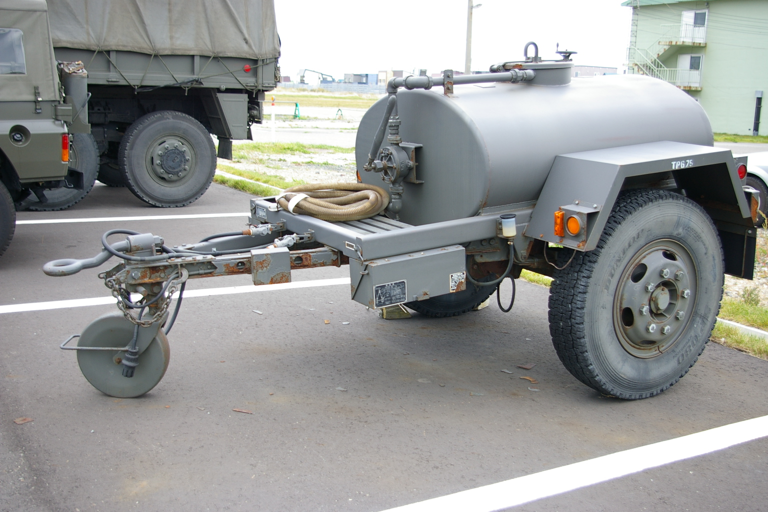 JGSDF water tank trailer.